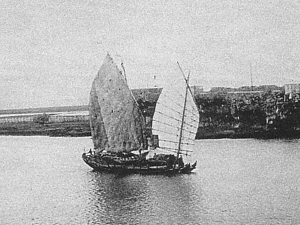 Yanbaru Boat